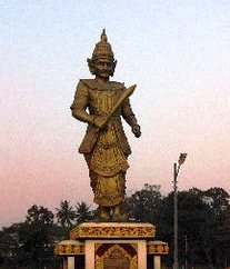 Mingyi Nyo